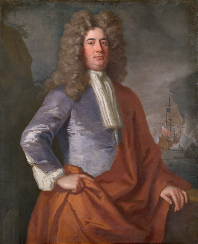 Portrait de l'amiral Mathew Aylmer (1658-1720)